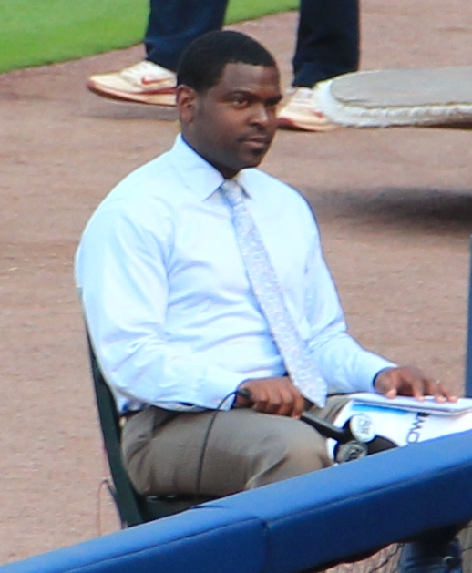 Sports broadcaster Telly Hughes, 2014